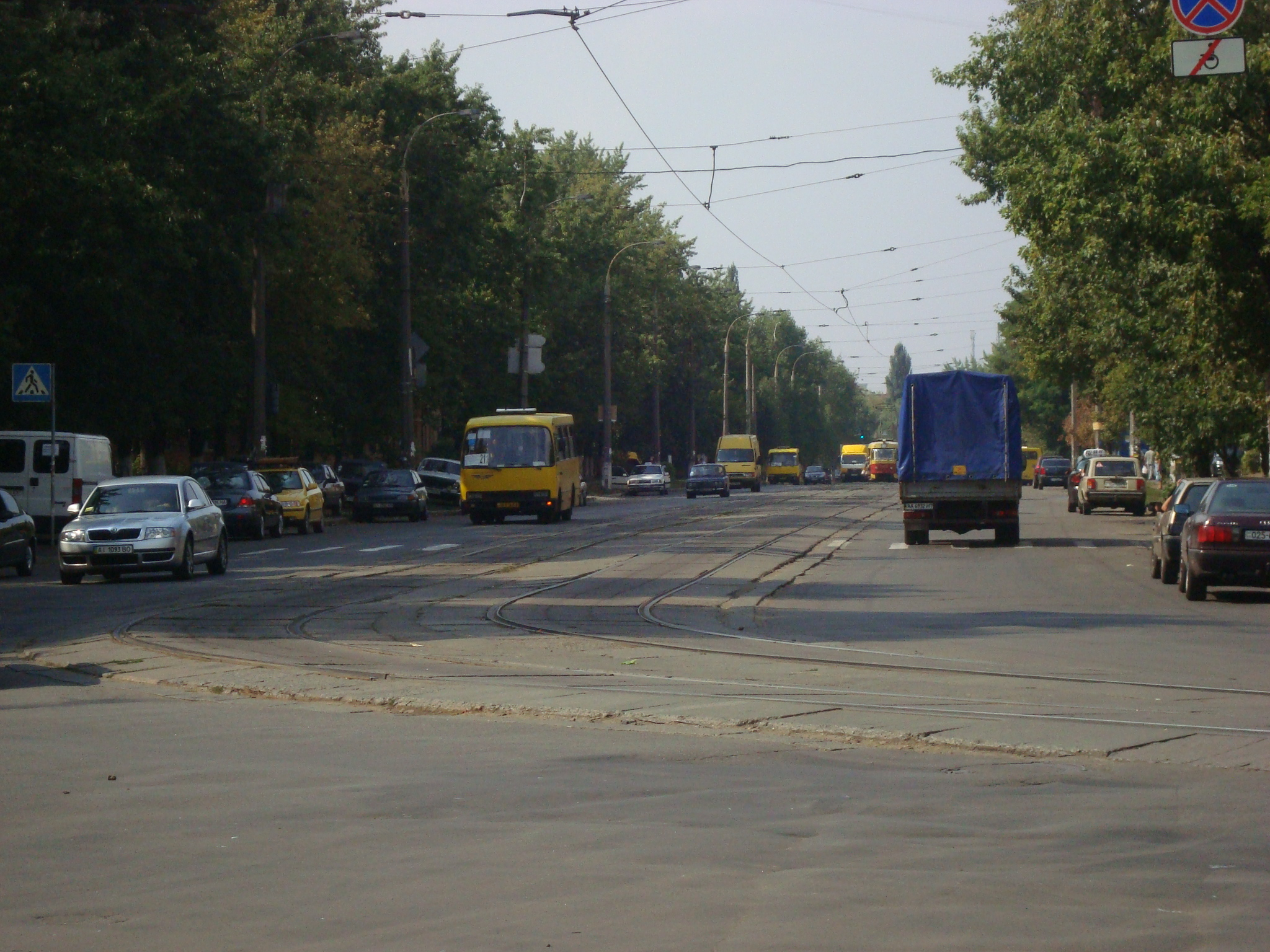 Prazska street in Kyiv